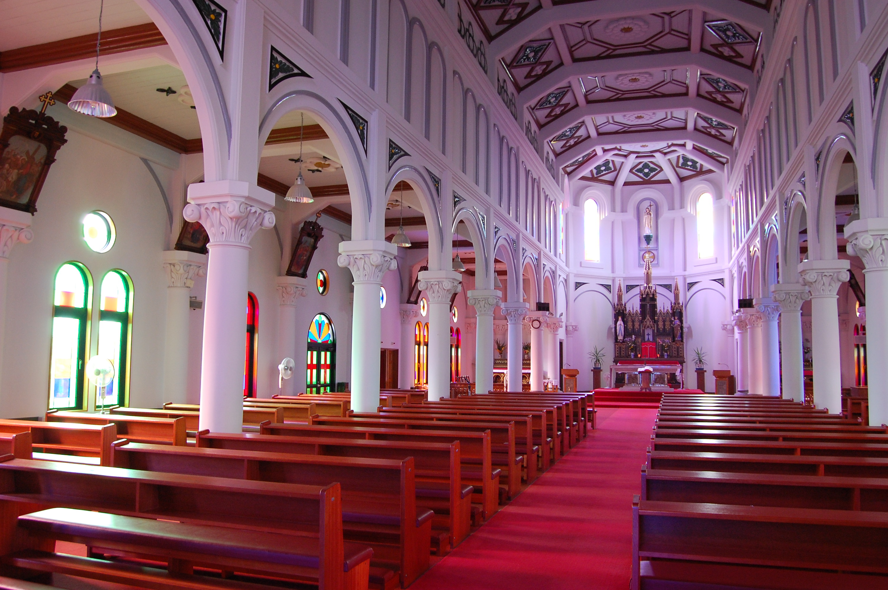 The inside of Himosashi Church